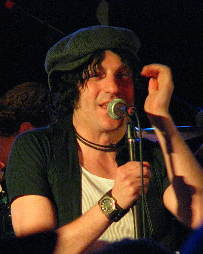 Jesse Malin performing at the Stone Pony in Asbury Park, NJ as part of the Light of Day Festival 01152016. Photo by LHCollins.